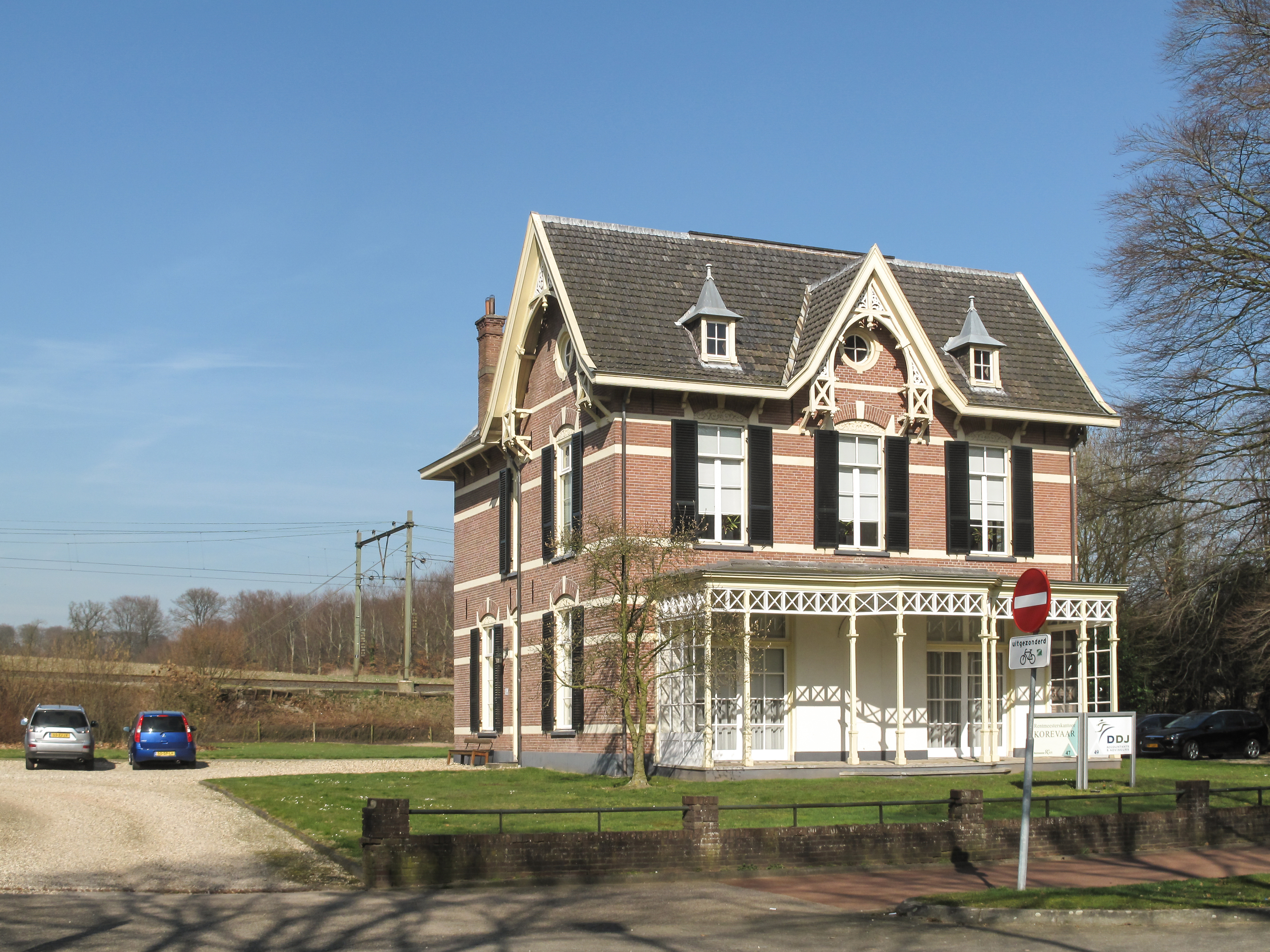 Ellecom, monumental building: rentmeesterkantoor Korevaar